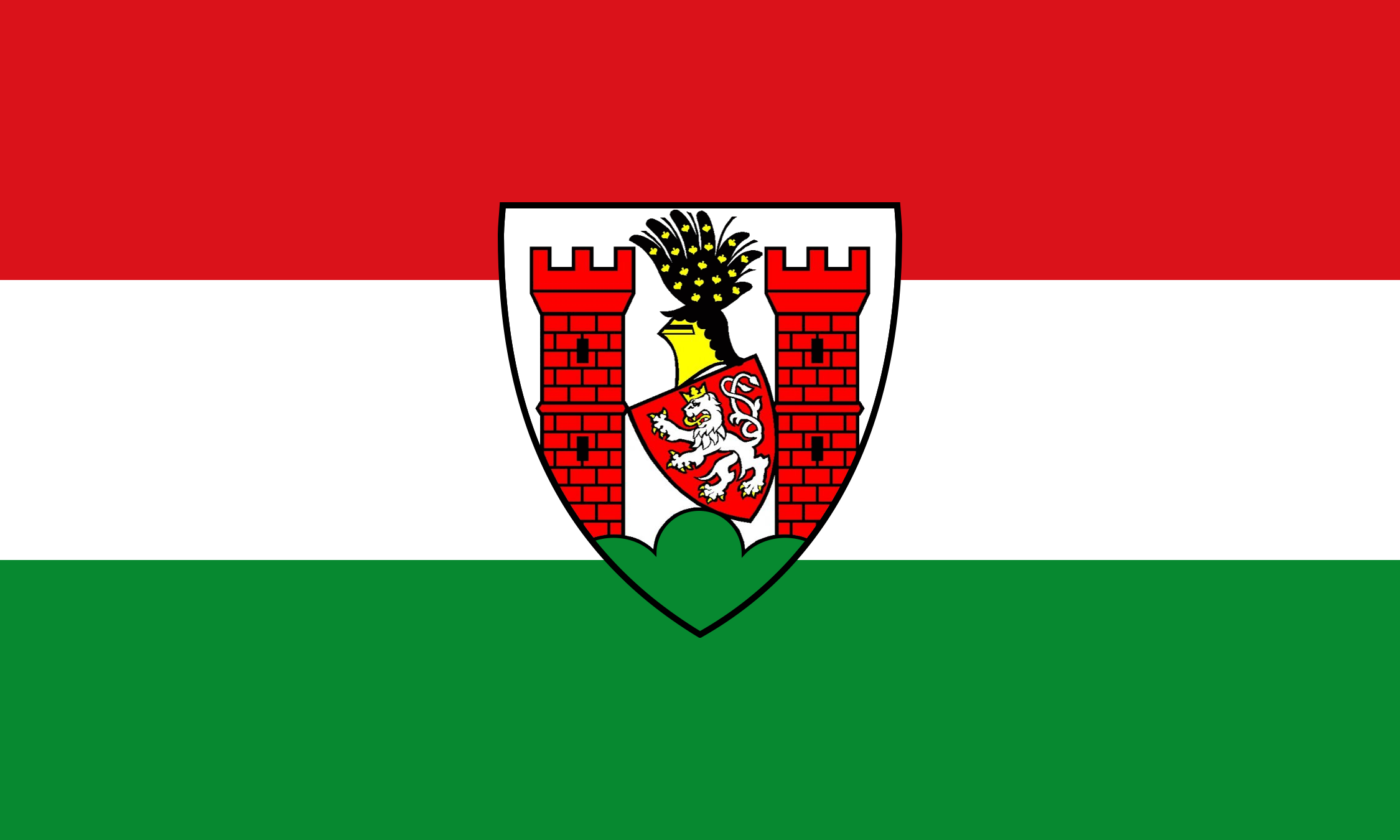 horizontal display flag of the German city of Spremberg